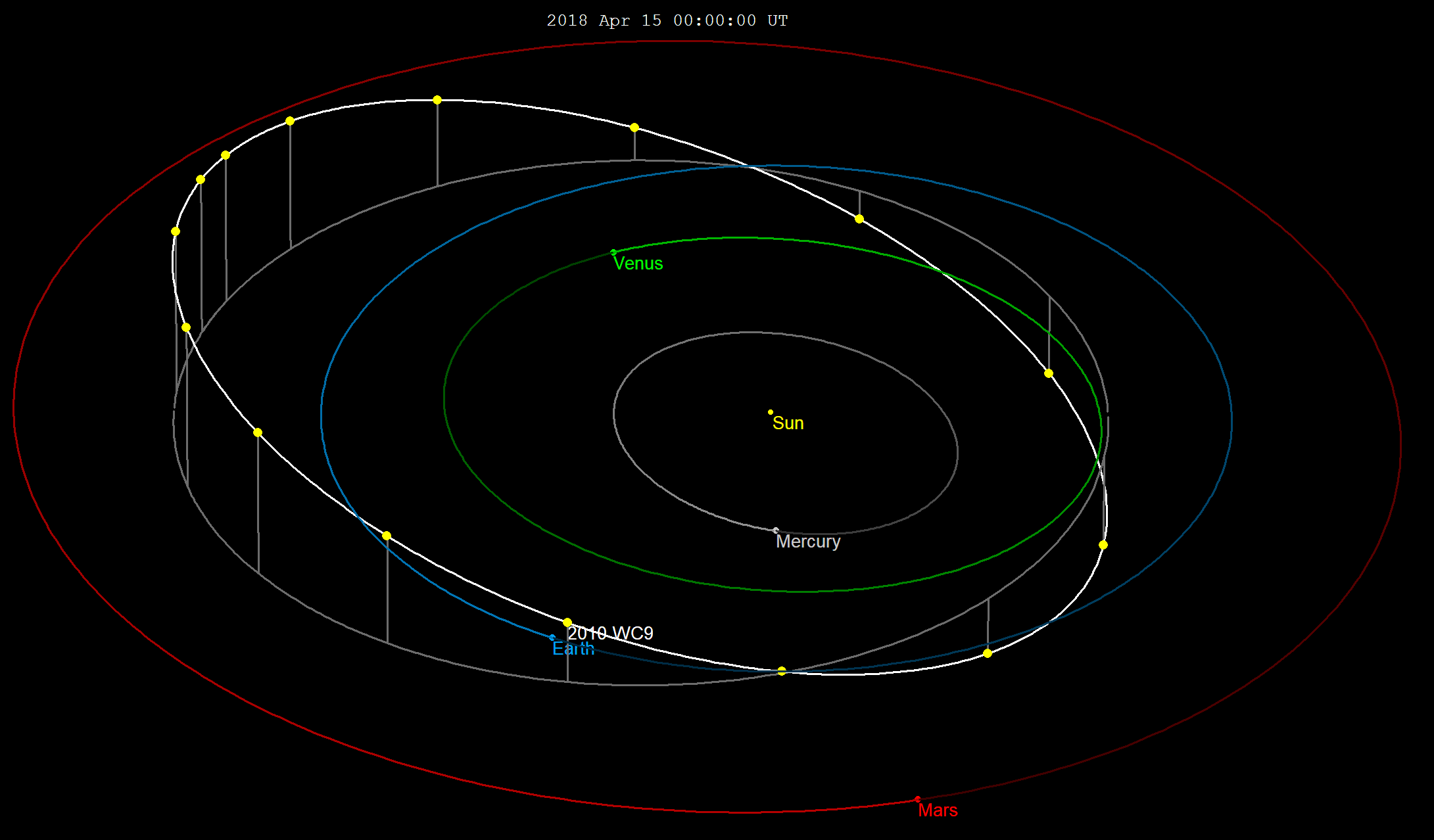 Orbit of near-Earth asteroid 2010 WC9, with 30 day markers